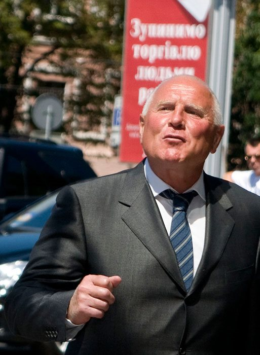 Leonid Klimov, Ukrainian politician, member of the Ukrainian Verkhovna Rada. President of FC Chornomorets Odesa